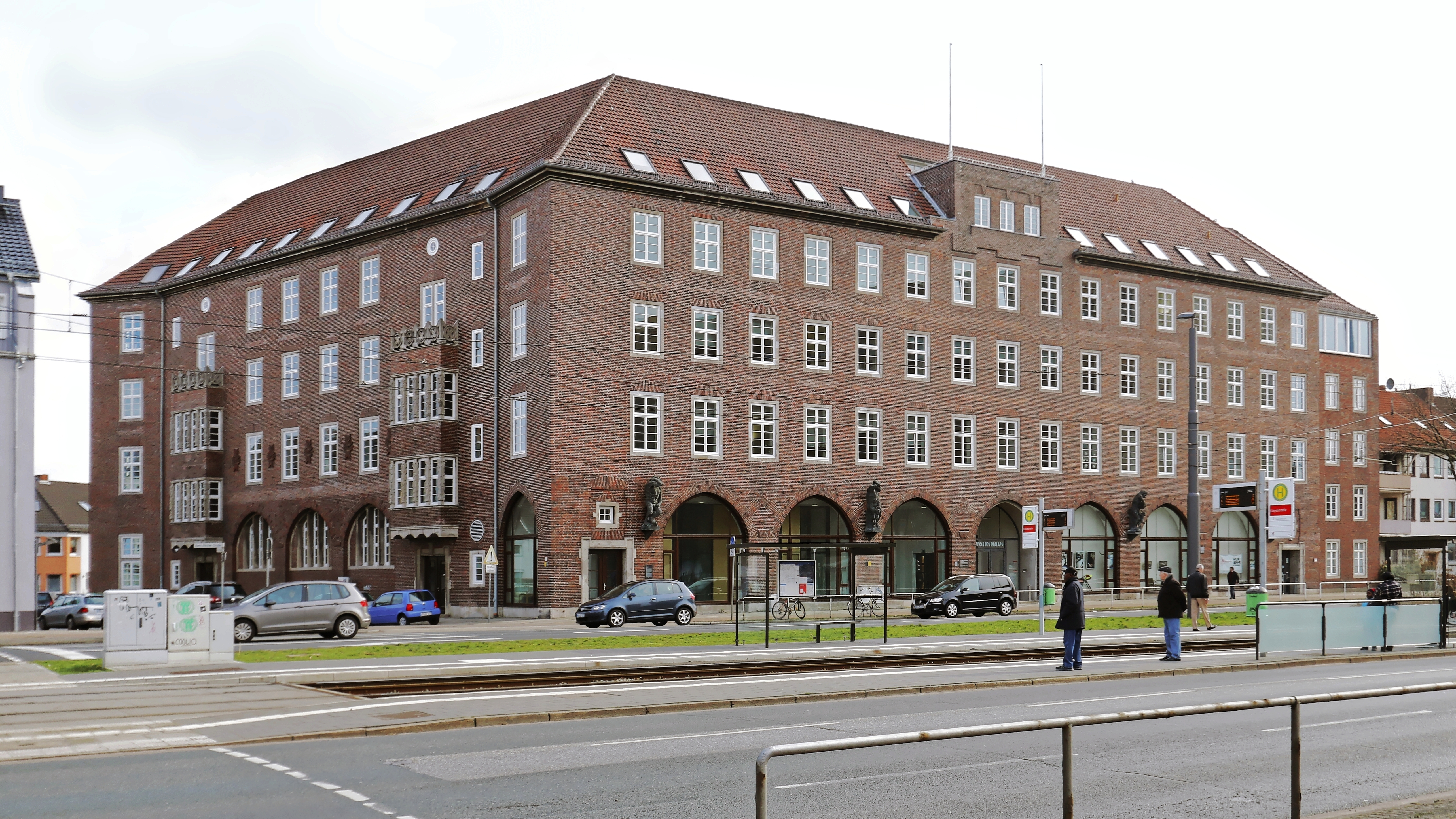 Volkshaus Bremen